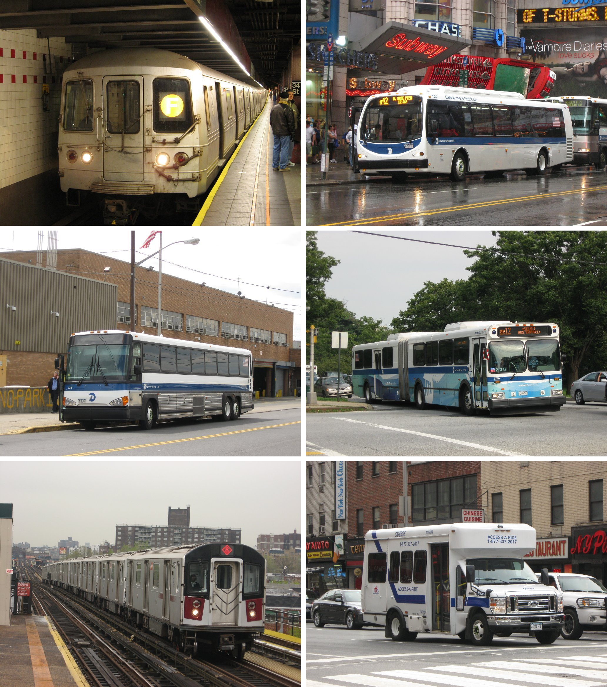 The New York City Transit Authority (MTA New York City Transit, a subsidiary of the Metropolitan Transportation Authority of NY) provides local bus, express bus, subway, bus rapid transit, and paratransit service in the City of New York.